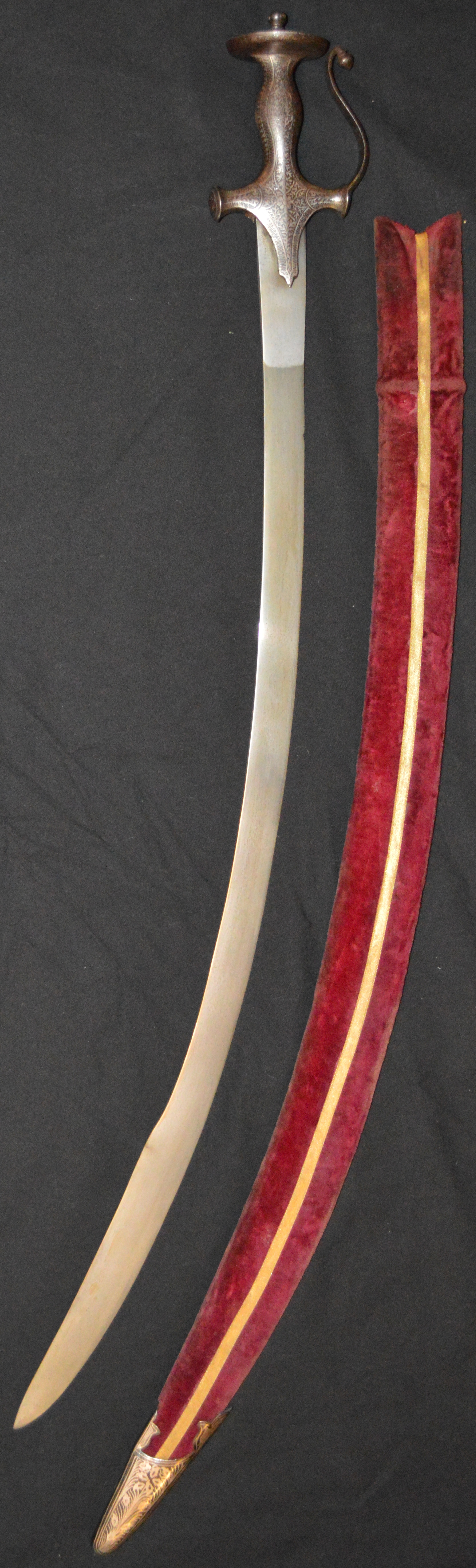 Indian tulwar sword, 19th century, North India, probably Rajasthan or Gujerat, crystalline wootz steel blade with a pronounced yelmen. The hardened cutting edge has been fused (scarf welded) to a softer, more flexible heel (a common practice in Indian swords), silver koftagri decorated hilt, red velvet covered scabbard.